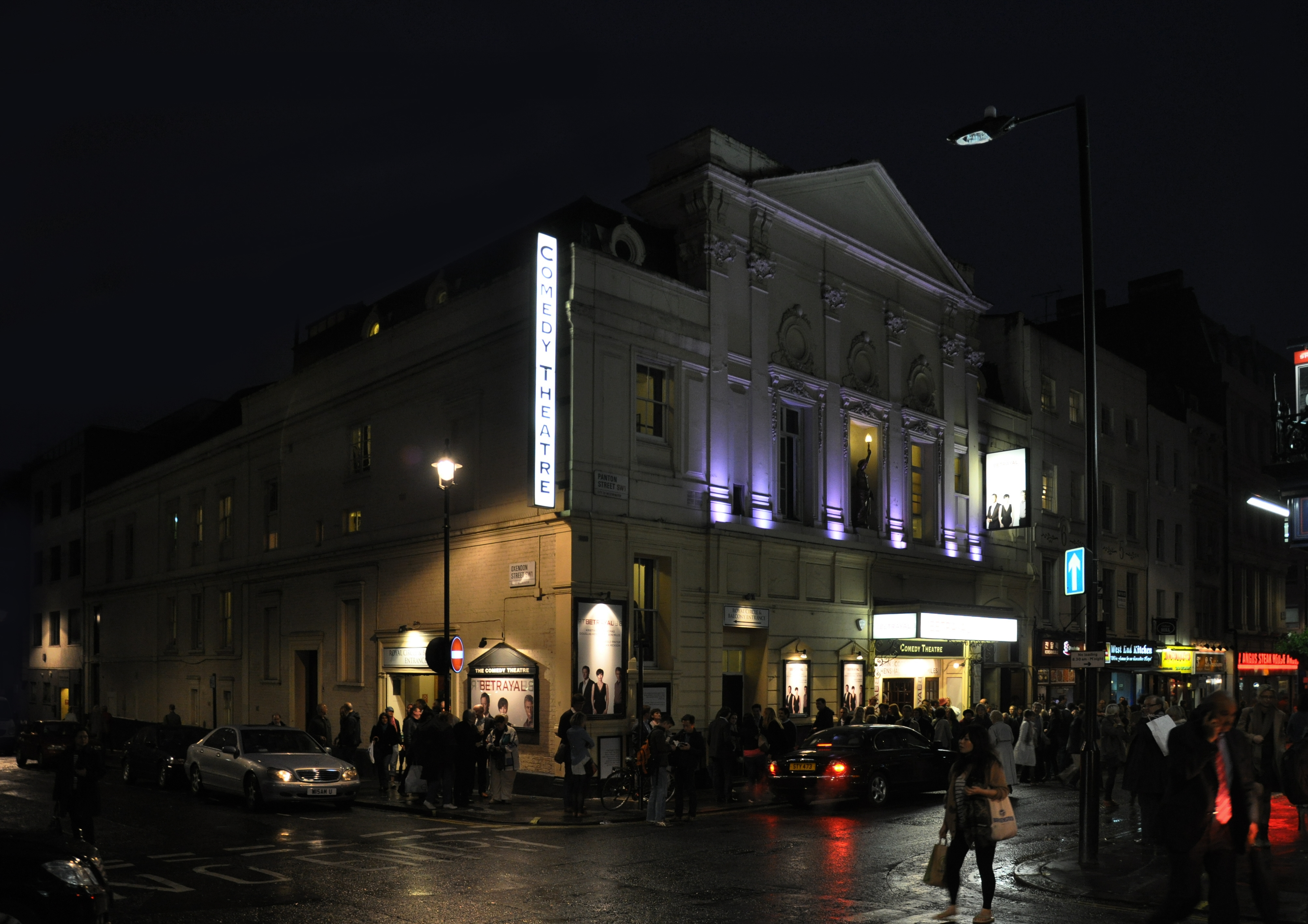 London, Comedy Theatre (showing "Betrayal" by Harold Pinter)